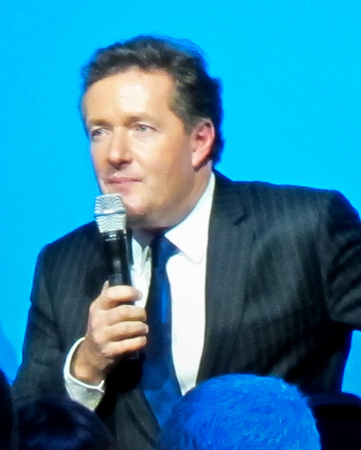 Piers Morgan at CES 2011.